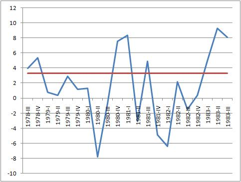 A graph of the Early 1980s recession in the United States. Blue line is Percent Change From Preceding Period in Real Gross Domestic Product (annualized; seasonally adjusted) Red line is Average GDP growth 1947–2009 Data is from the Bureau of Economic Analysis.